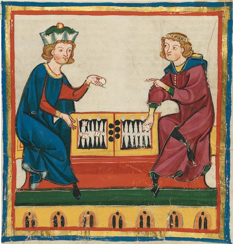 A scene from a 1300's book, of a king playing backgammon. The image has been modified (original page has heraldic signs which are removed in this picture). A similar scene is described by 6th century Byzantine poet in a poem of Agathias found in W:en:Anthologia Palatina. This figure was modified so that it can be used as an illustration in the Wikisources article concerning the poem